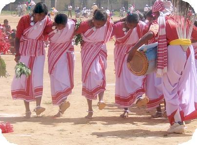 Picture of sarhul dance